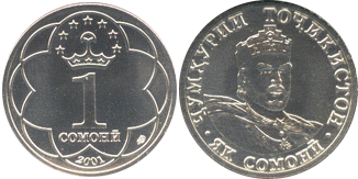 1 somoni